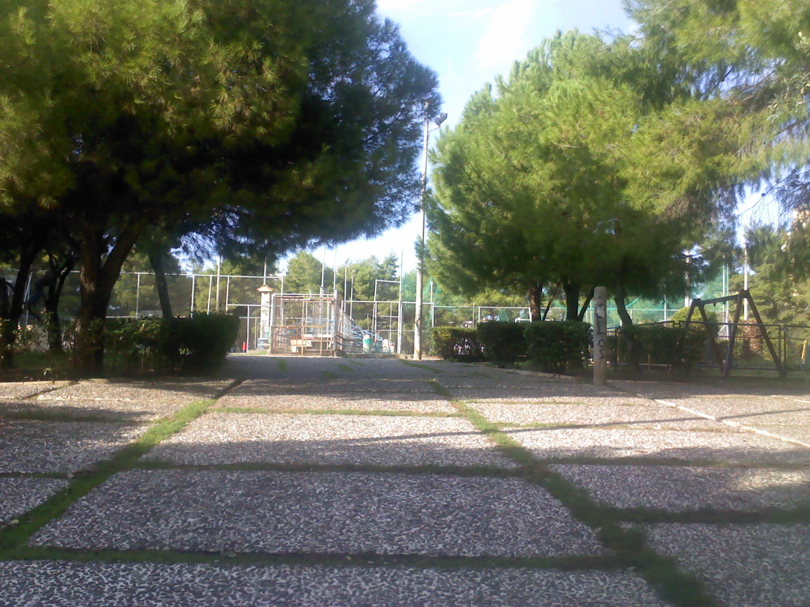 SquareTsaldariNeaIonia